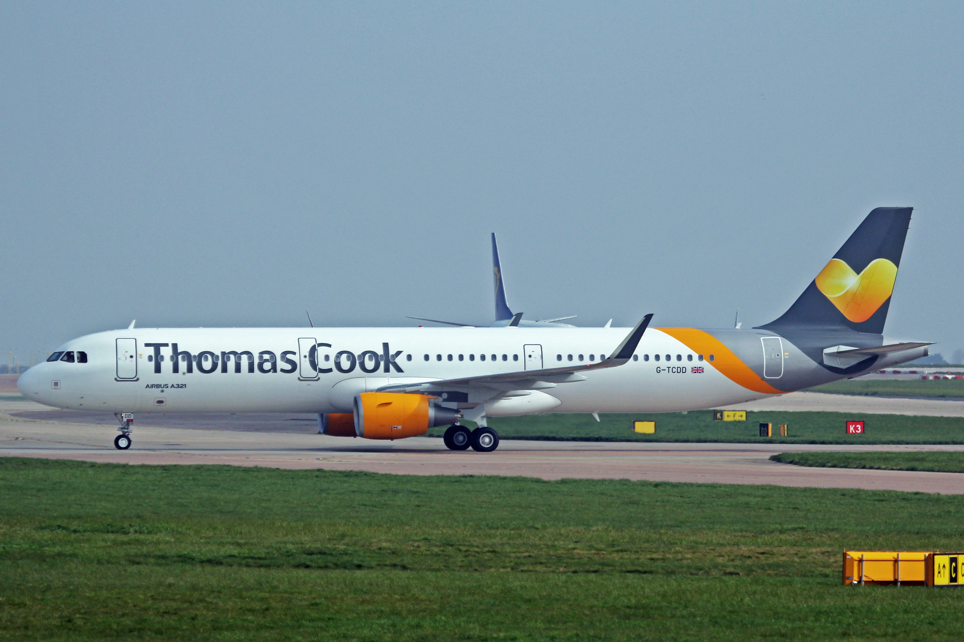 Only delivered 3 days ago (26-Mar-14) and in the new Thomas Cook Group livery.